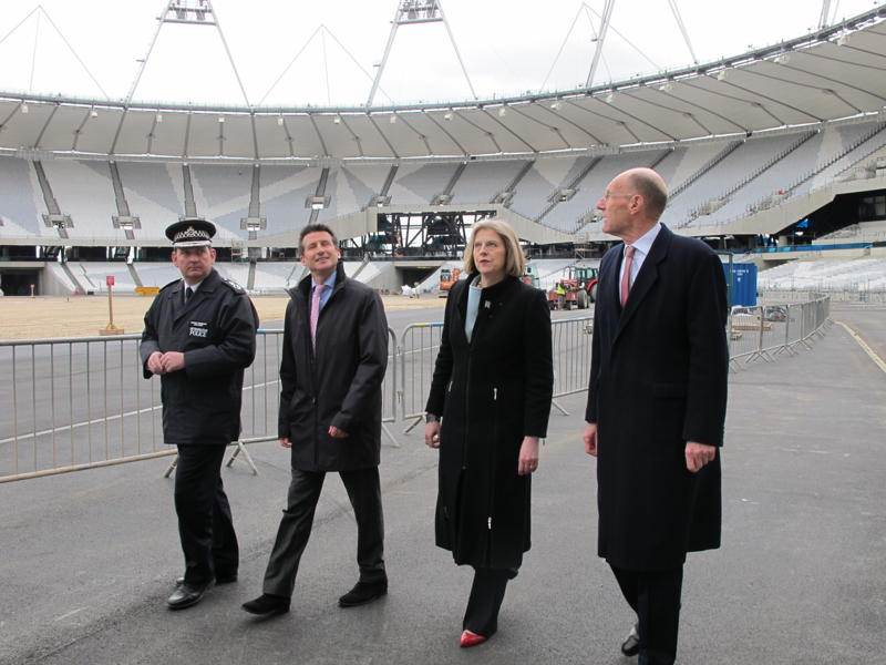 L-r: Chris Allison (Metropolitan Police Assistant Commissioner), Lord Coe, Theresa May and Chairman of the ODA John Armitt during a visit to the Olympic Park, East London